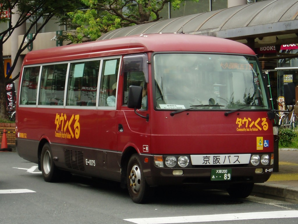 Mitsubishi FUSO ROSA use for TOWN-KURU on Moriguchi-City